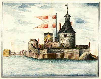 Fredriksholm castle in Kristiansand, as drawn by C. Bierck in 1756